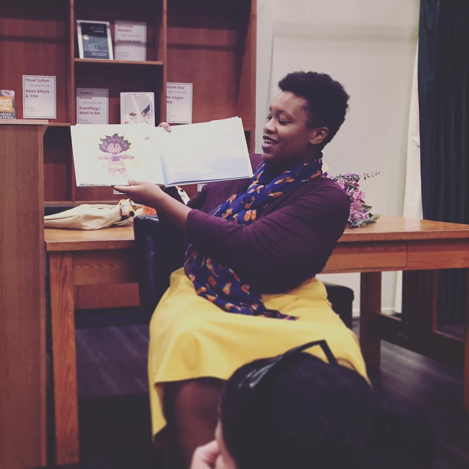 Nilah Magruder reading her book, "How to find a Fox," at Vroman's bookstore in Pasadena, CA. 2016.